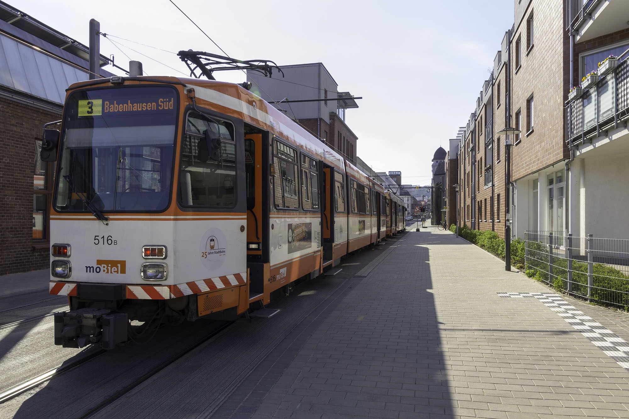 Duewag M8C StadtBahn-Triebwagen 516 und 551 am temporären Terminus der Linie 3 unweit der sich im Bau befindlichen Station "Dürkopp Tor 6". Während die Stationen Marktstraße und Krankenhaus Mitte als Hochbahnsteige neu errichtet werden, wenden aus Babenhausen Süd kommende Züge an der neuen, noch unfertigen Station. Fahrgäste können bis zum Abschluss der Bauarbeiten etwa 100m vor dem neuen Bahnsteig an der Straße ein- und aussteigen.